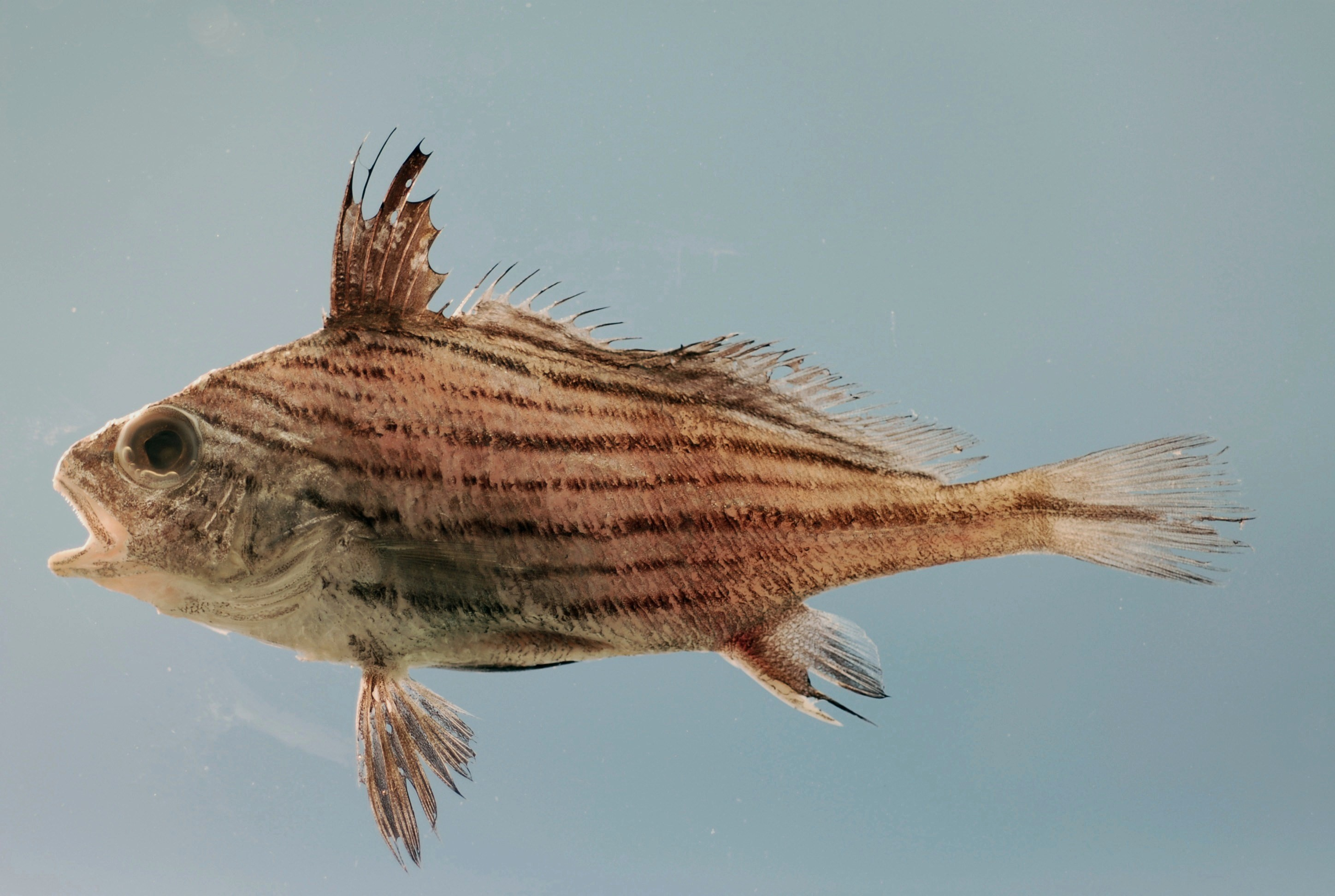 Cubbyu ( Pareques umbrosus ) . Location: Gulf of Mexico.